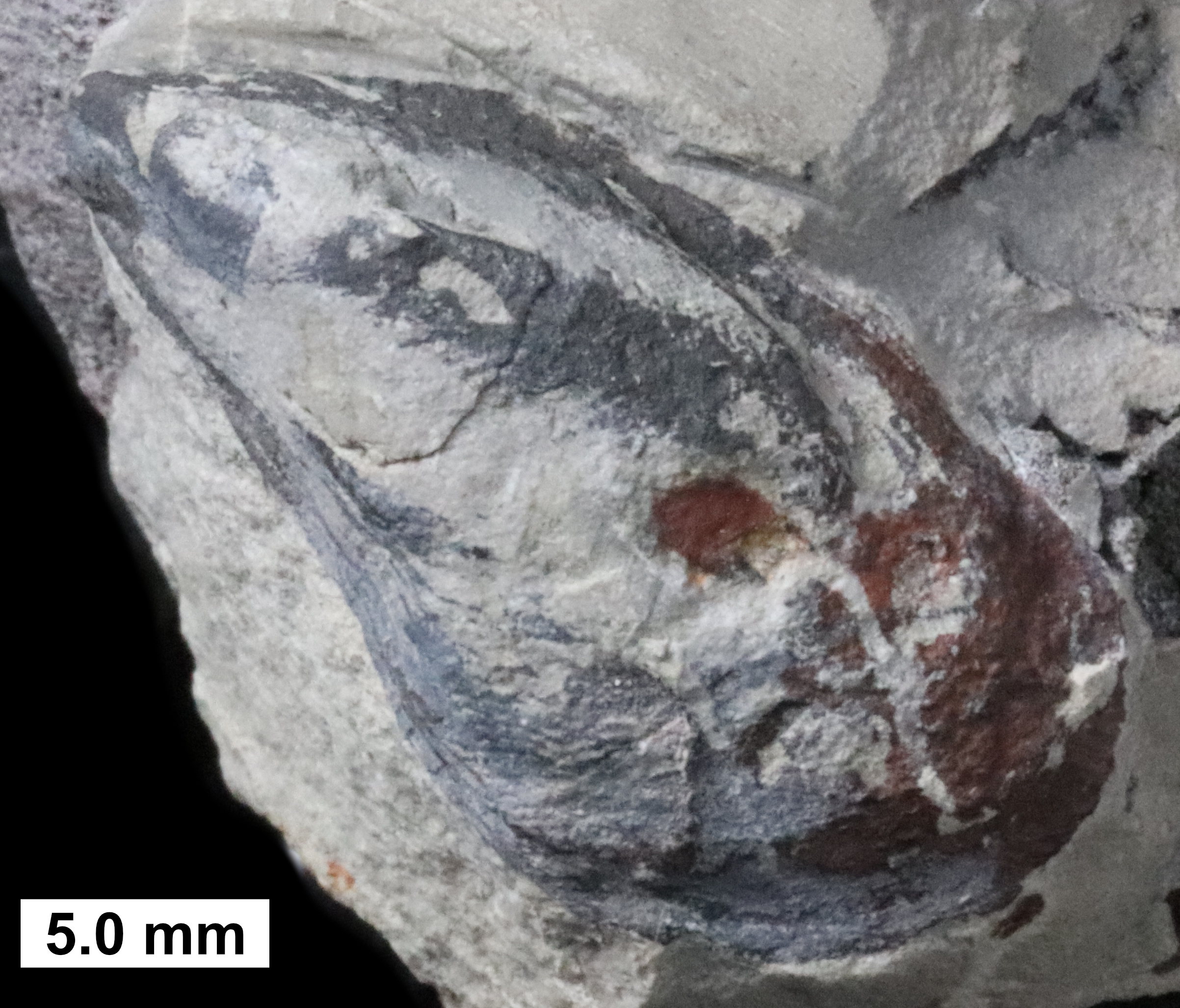 The bivalve, Mytilarca cingulosa Pohl, 1929; Milwaukee Formation; Berthelet Member; Milwaukee County, Wisconsin; MPM 13580; syntype; photograph originally published in K.C. Gass, J. Kluessendorf, D.G. Mikulic, and C.E. Brett, 2019. Fossils of the Milwaukee Formation: A Diverse Middle Devonian Biota from Wisconsin, USA. Siri Scientific Press, Manchester, UK.